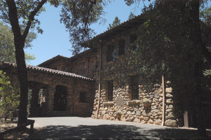 HOUSE OF HAPPY WALLS – HERE JACK AND CHARMIAN LONDON LIVED BEFORE PLANNING TO MOVE TO THEIR NEWLY BUILT WOLF HOUSE. THIS HOUSE WAS BUILT BETWEEN 1919 AND 1926. NOW IT HOUSES A MUSEUM WITH A ROOM MADE TO LOOK LIKE HIS STUDY WITH EQUIPMENT HE USED. CHARMIAN LIVED UNTIL HER DEATH IN 1955.